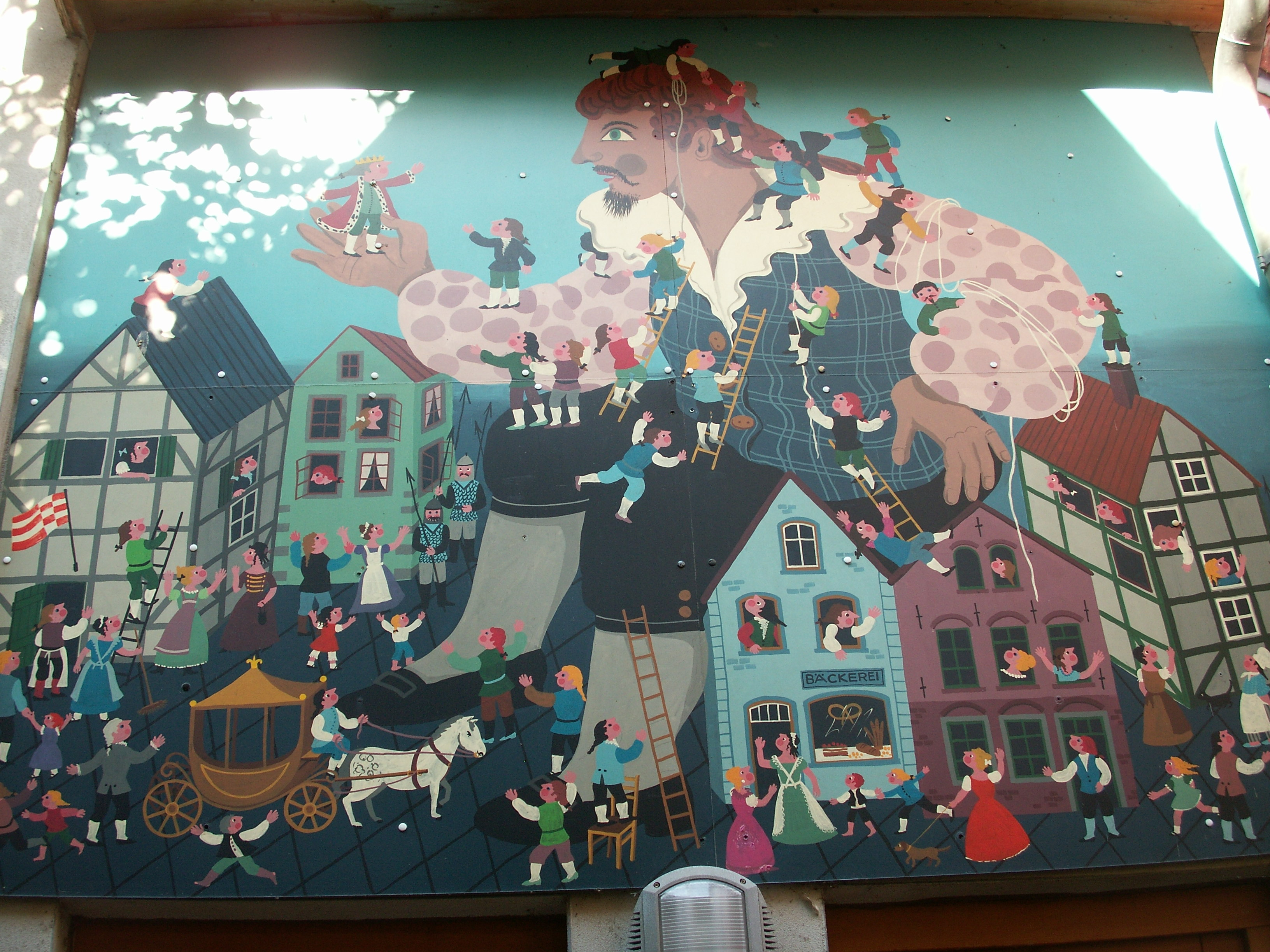 This picture has been made to a mural at the facade of a toy-shop in Bremen, Germany.